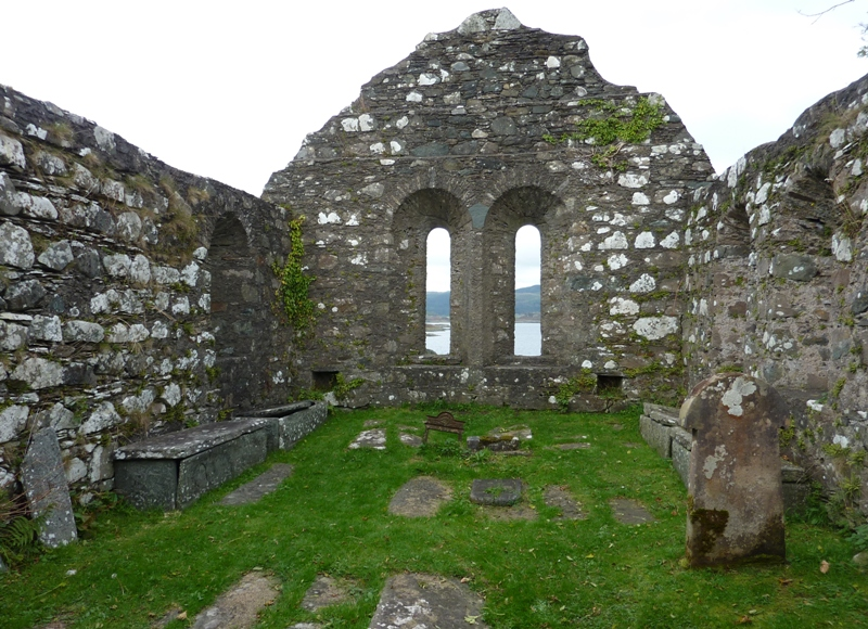 Kirkton Chapel, Craignish, Argyll and Bute, Scotland. Interior looking east. Four tomb chests are displayed.